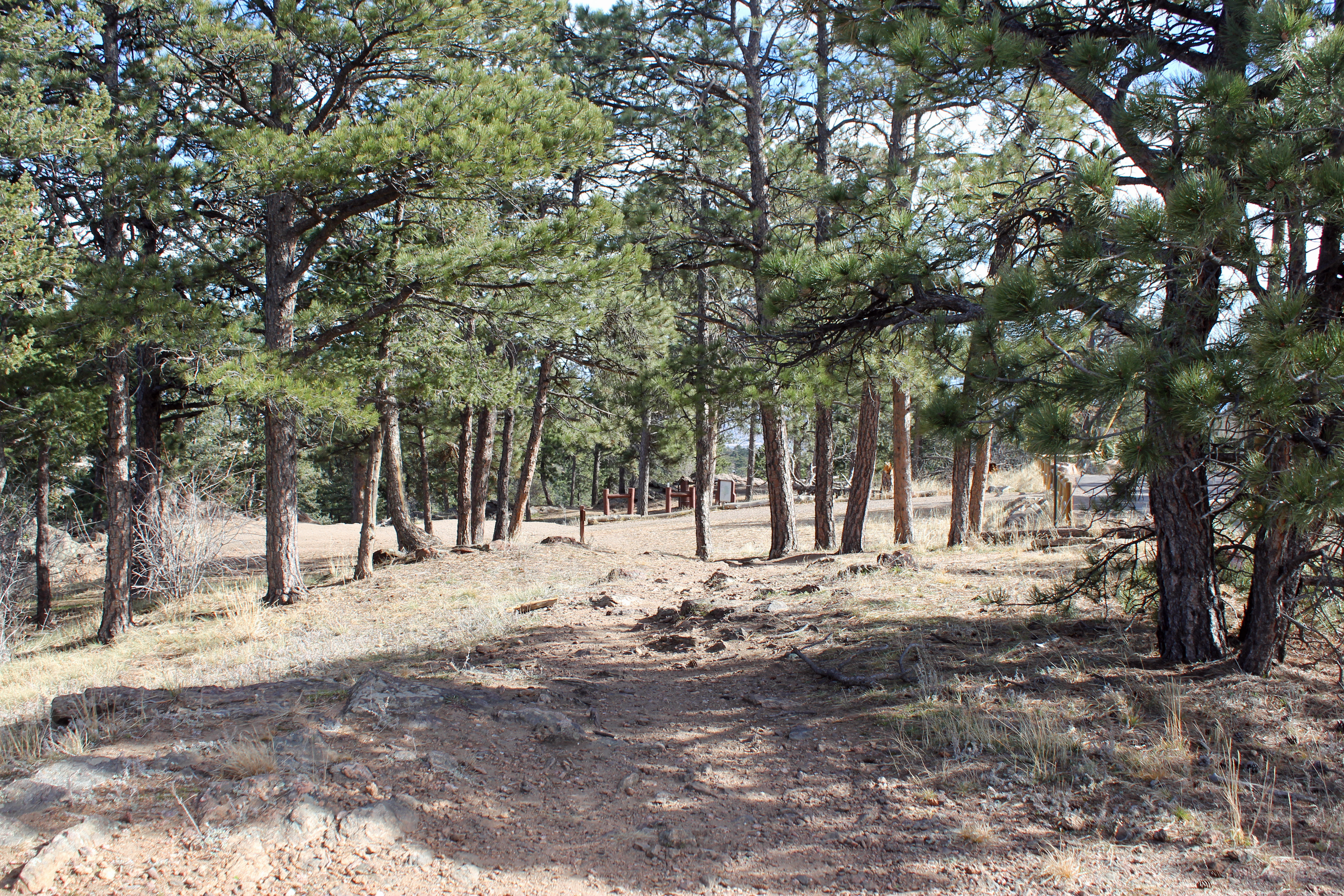 Colorow Point Park, located at 900 Colorow Road, Golden, Colorado. The park is one of the Denver Mountain Parks, and it is listed on the National Register of Historic Places.